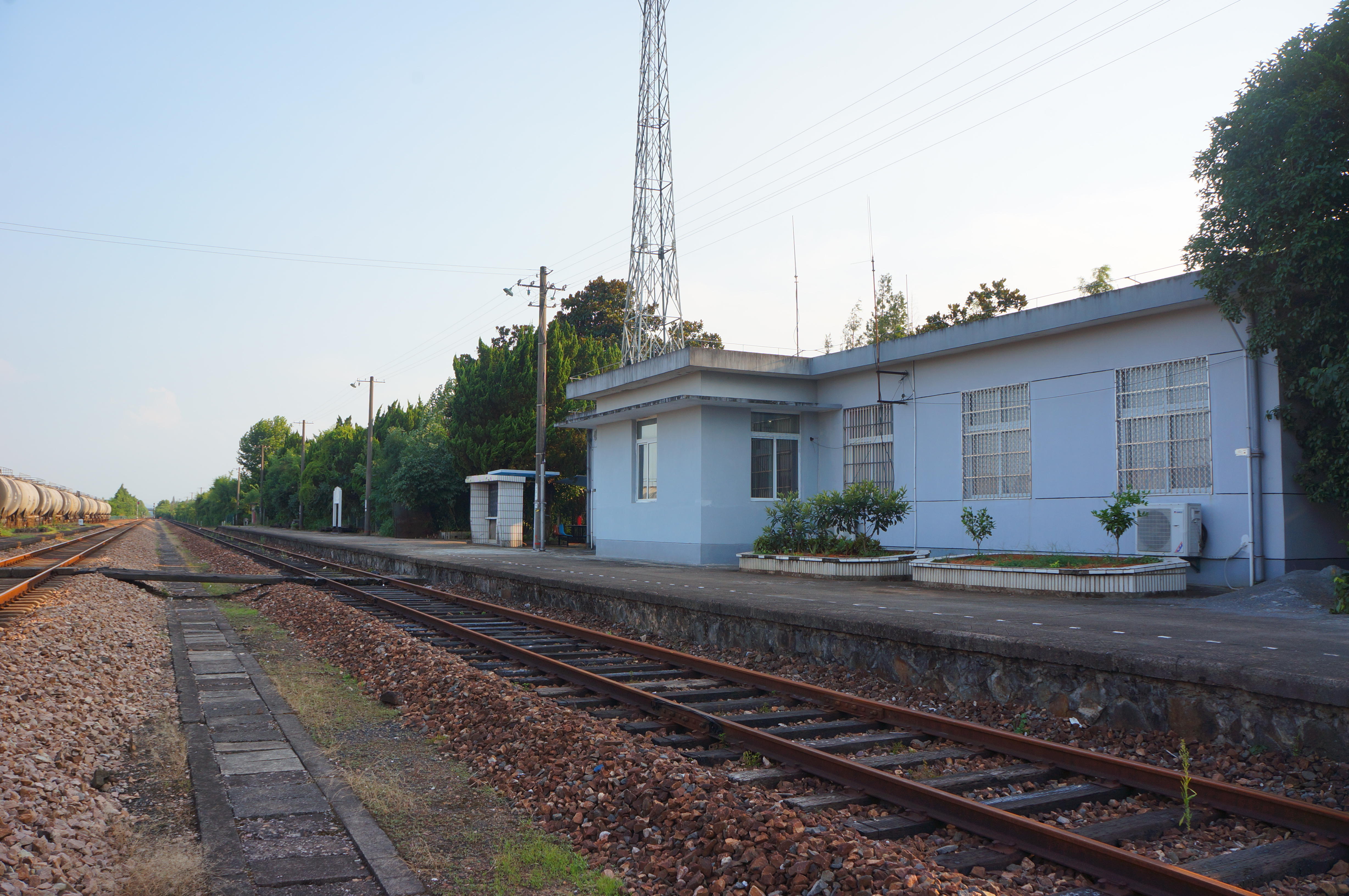 201608 Conductor of Shilai Station